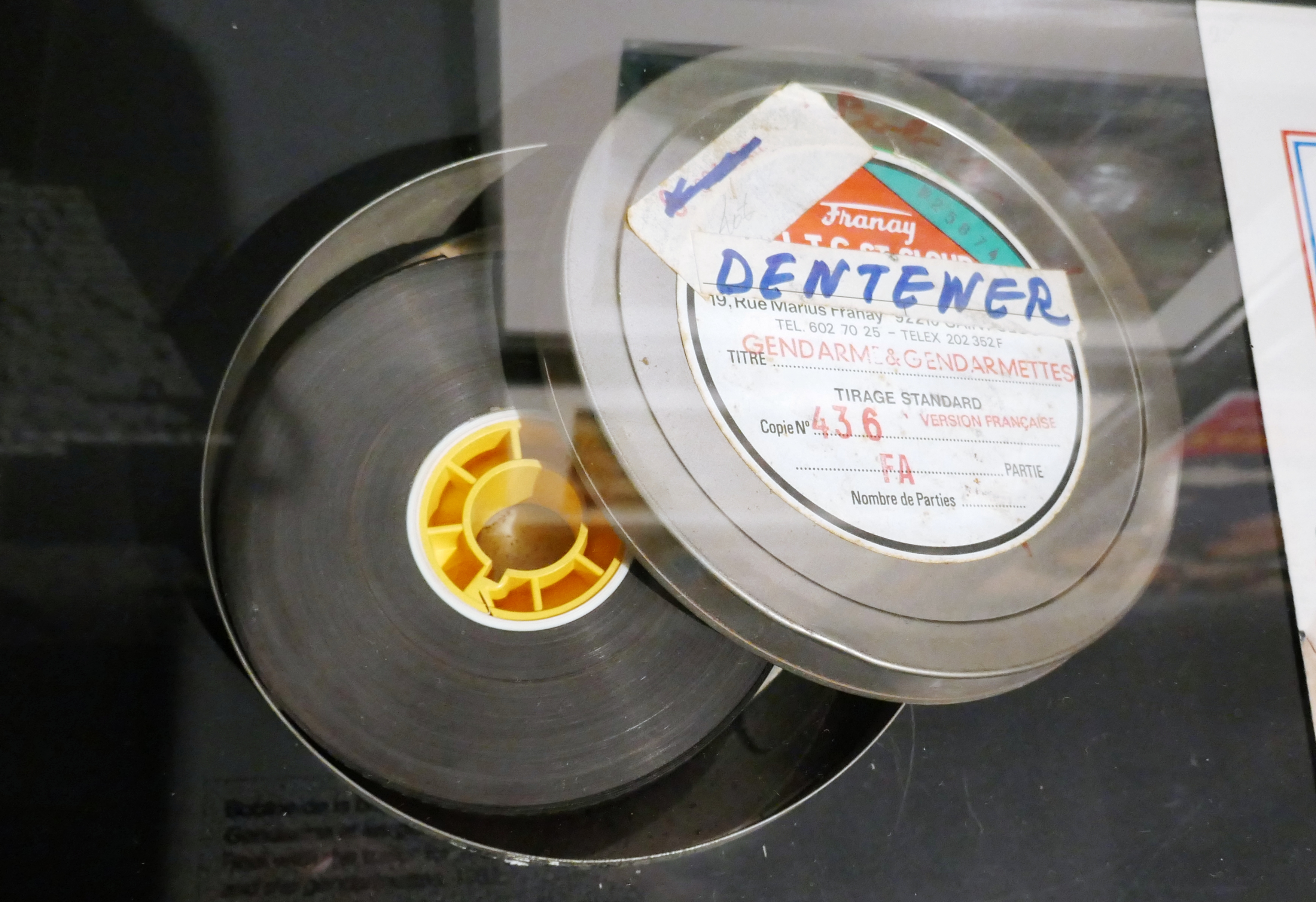 Film reel of the trailer of Le Gendarme et les Gendarmettes. Museum of Gendarmerie and Cinema, Saint-Tropez, August 2015.